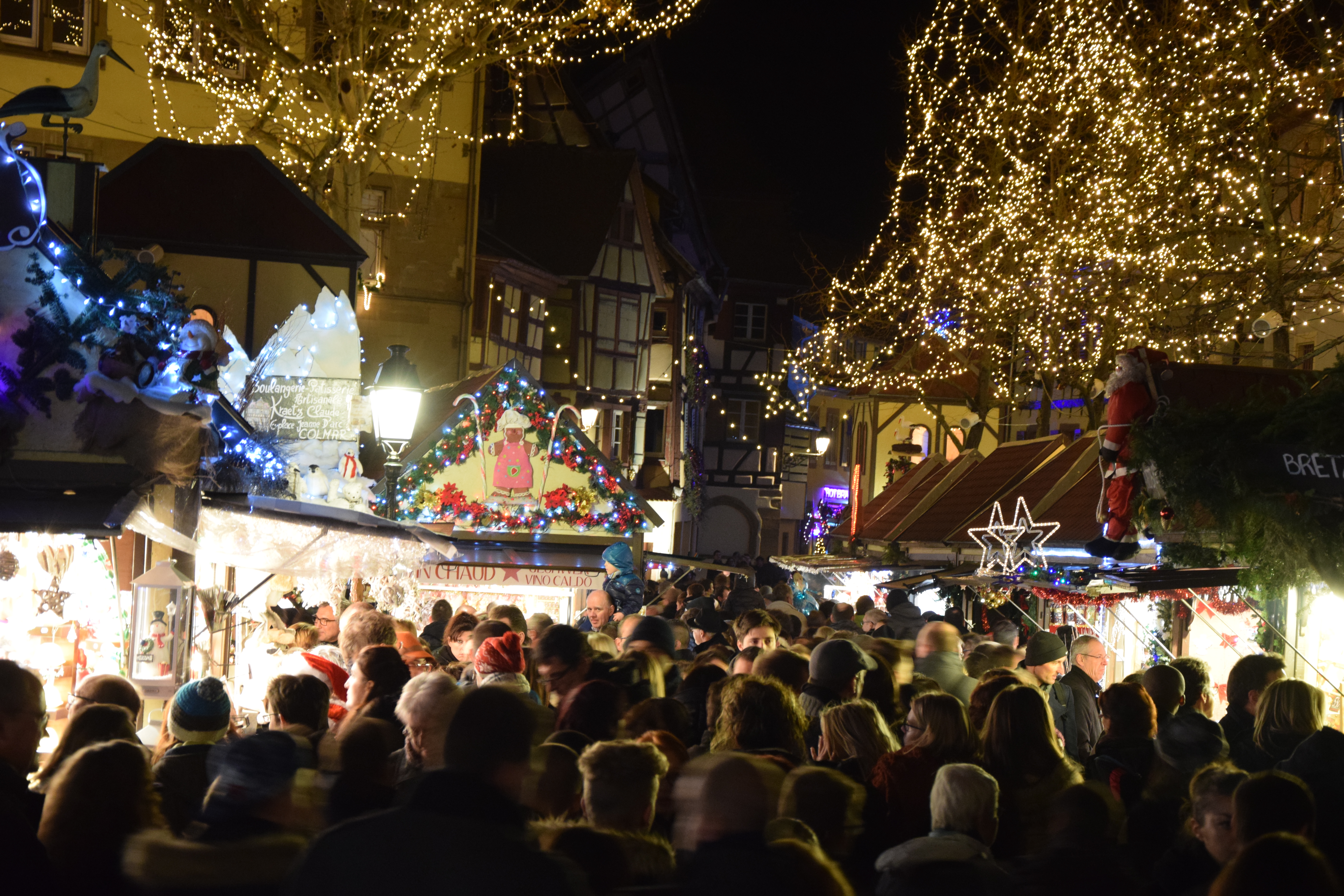 One of the five christmas markets in Colmar, Alsace, France (by night)